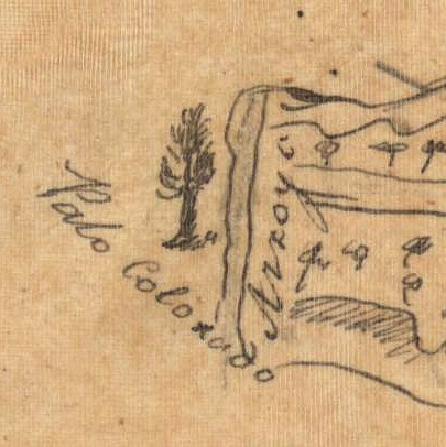 Extract from larger map, Diseño del Rancho San José y Sur Chiquito : Calif.